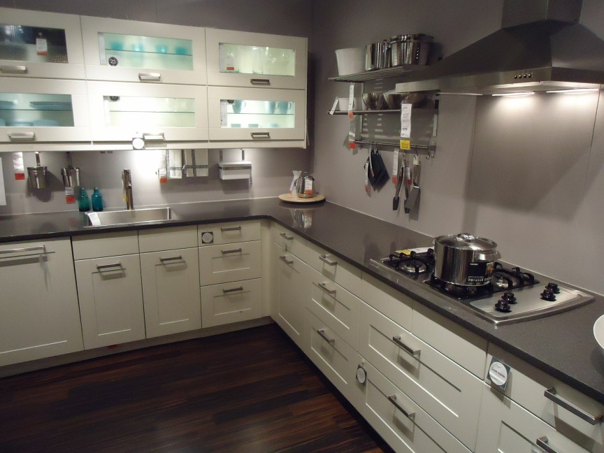 Kitchen design at a store.